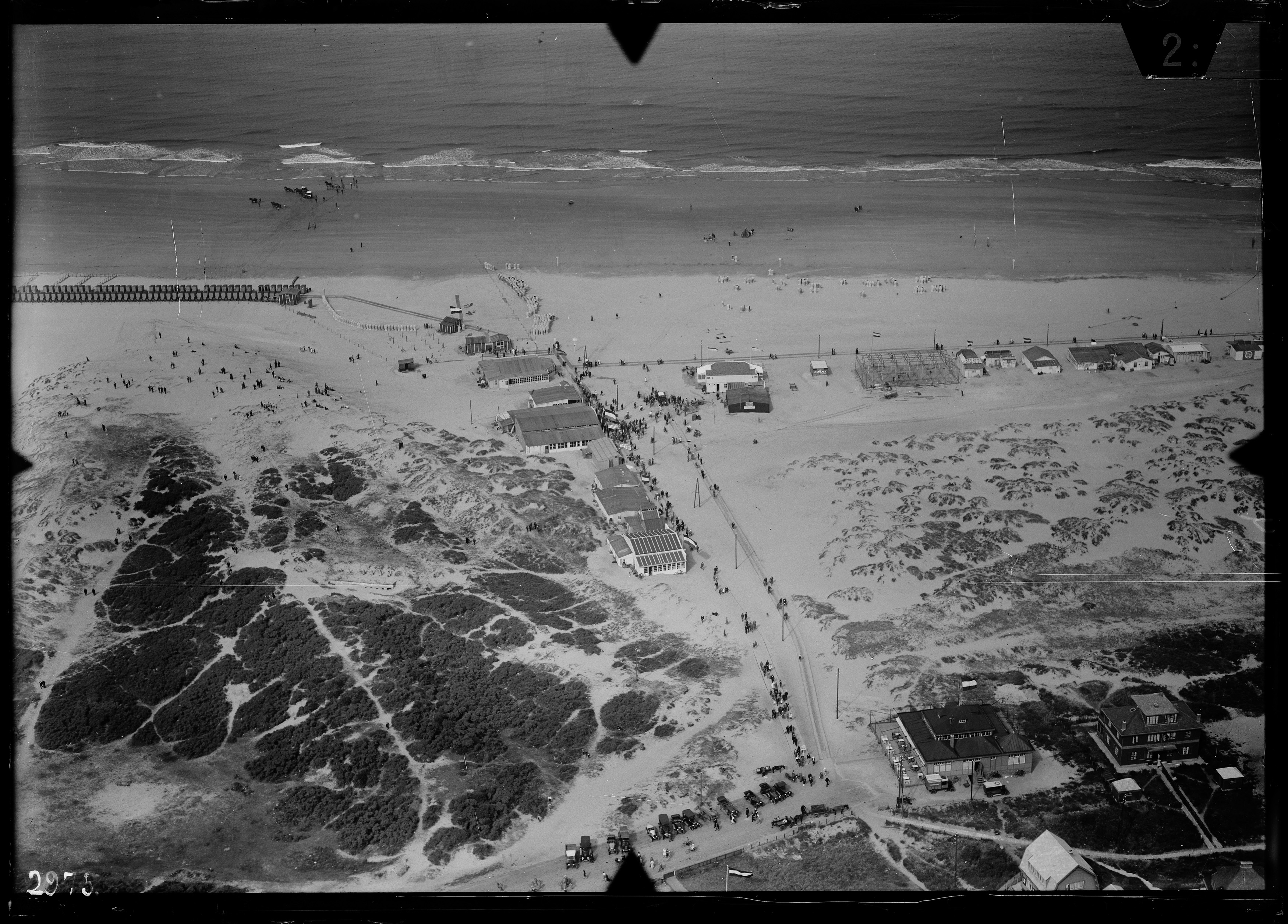 Aerial photograph of Hoek van Holland, The Netherlands